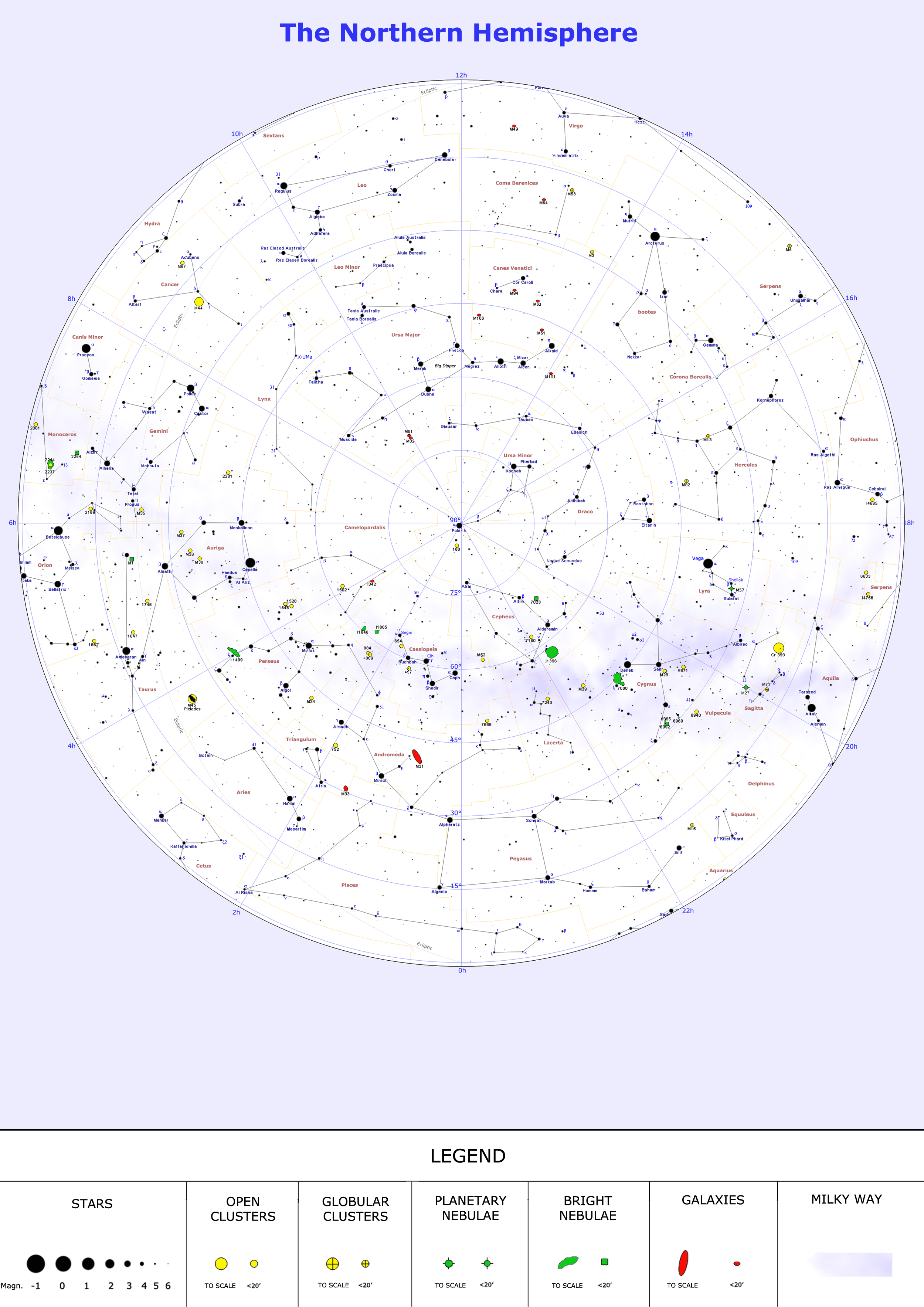 Full map of the Northern celestial hemisphere.